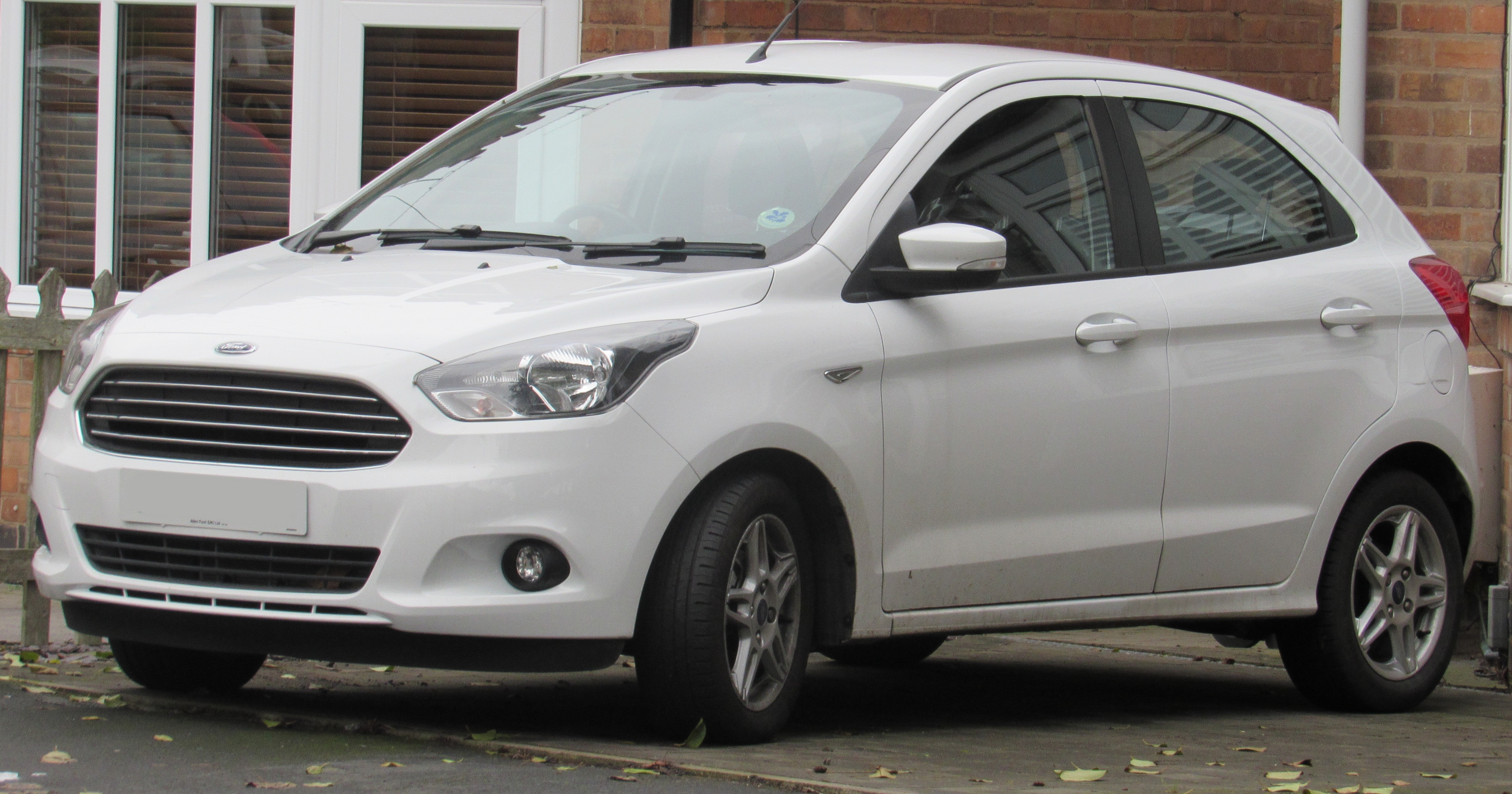 2017 Ford KA+ Zetec 1.2 Taken in Warwick